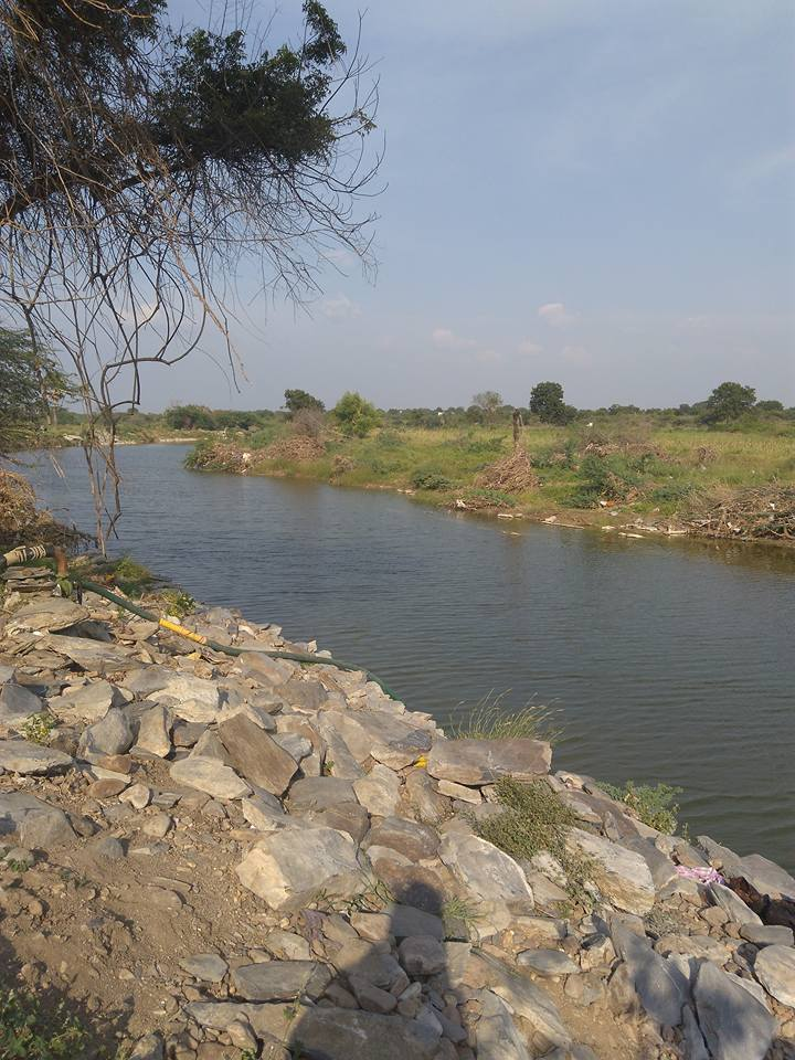 naguleru in gogulapadu,gurazala mandal ,guntur distric